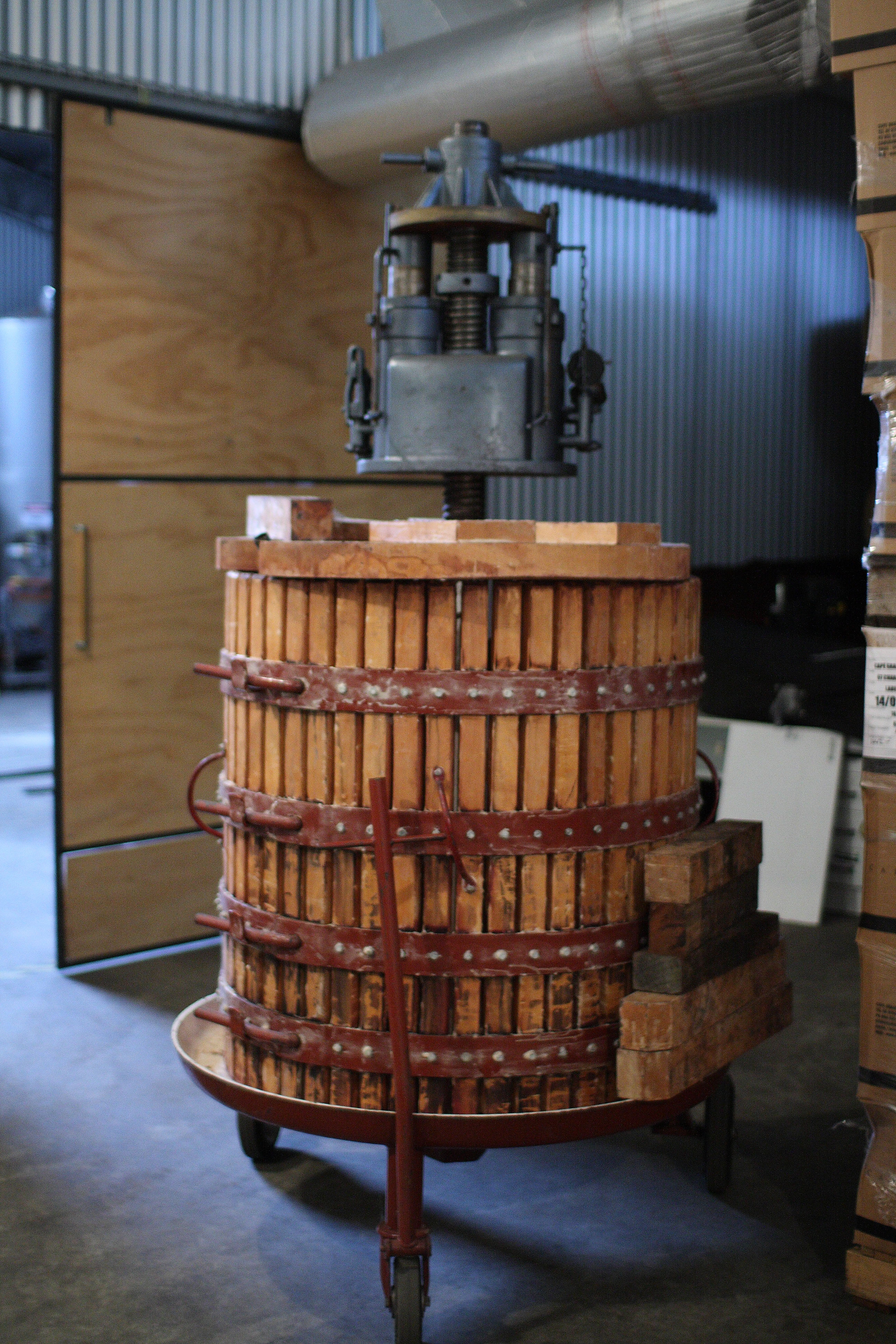 An example of a basket press